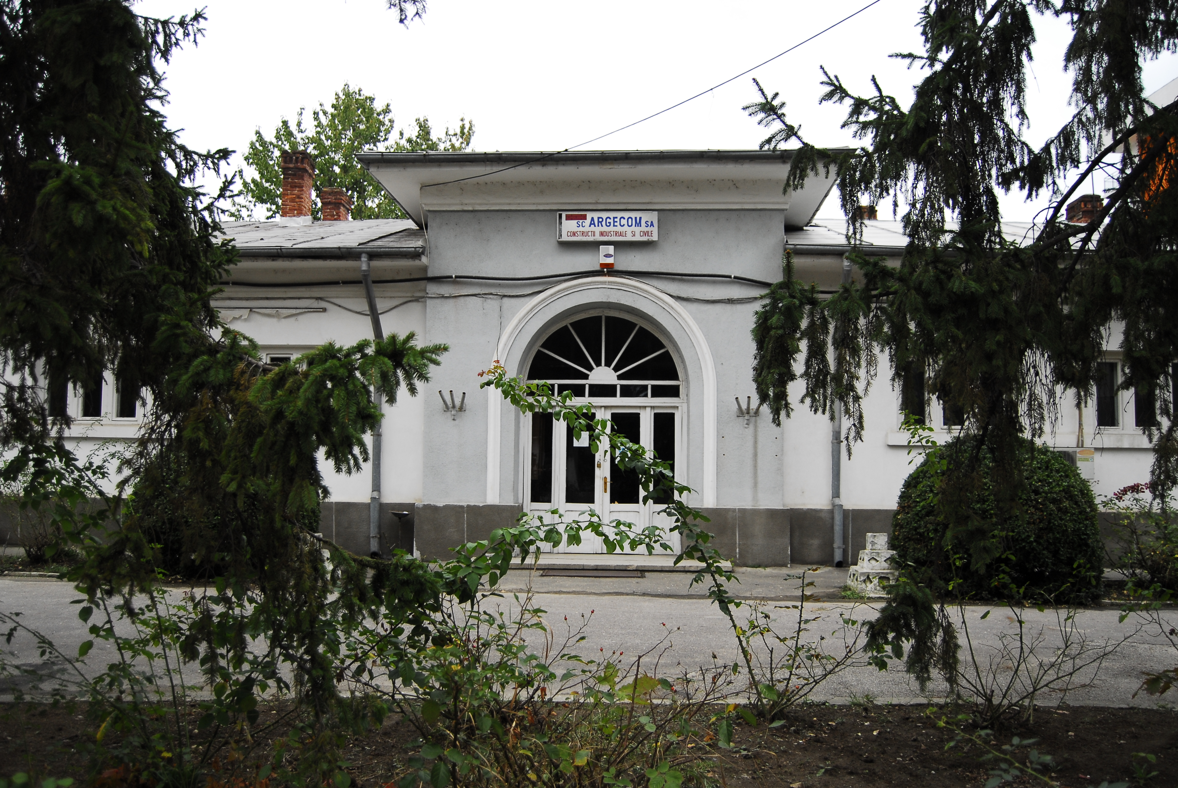 Former Pitesti prison main entrance.